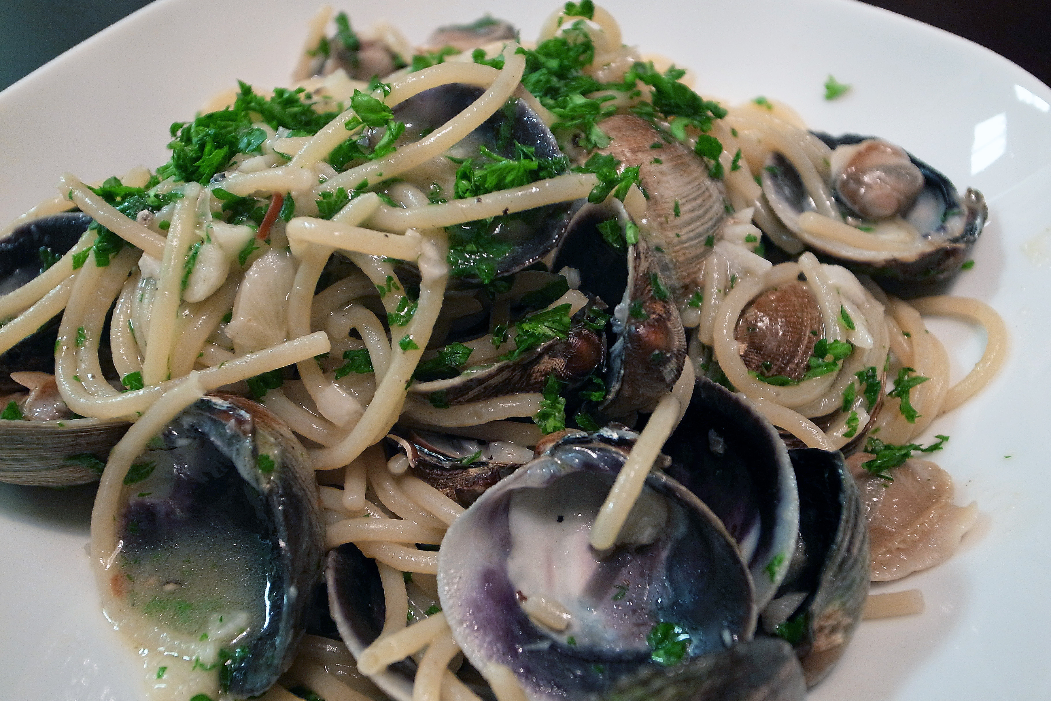 Spaghetti vongole seafood